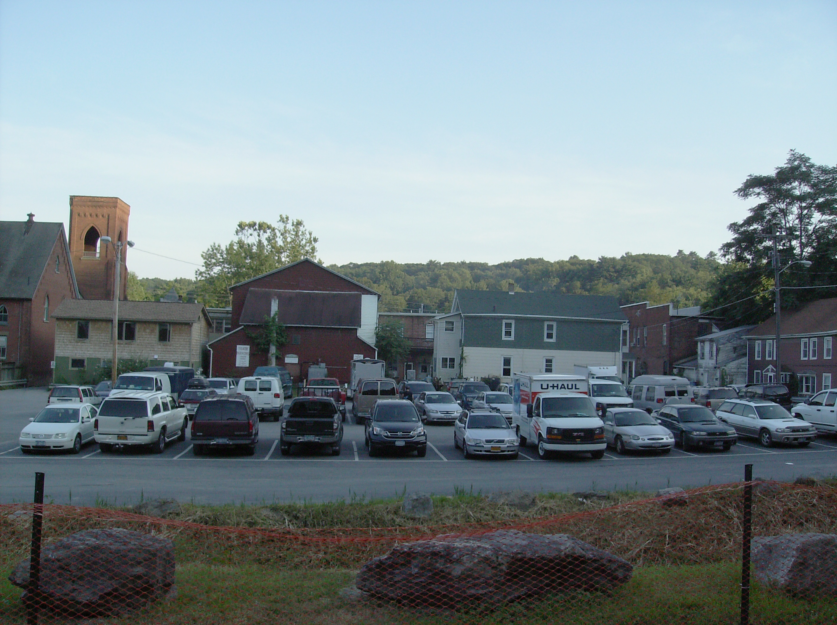 The municipal parking lot at the base of Joppenbergh Mountain in Rosendale Village, New York, viewed from the north, from Willow Kiln Park.